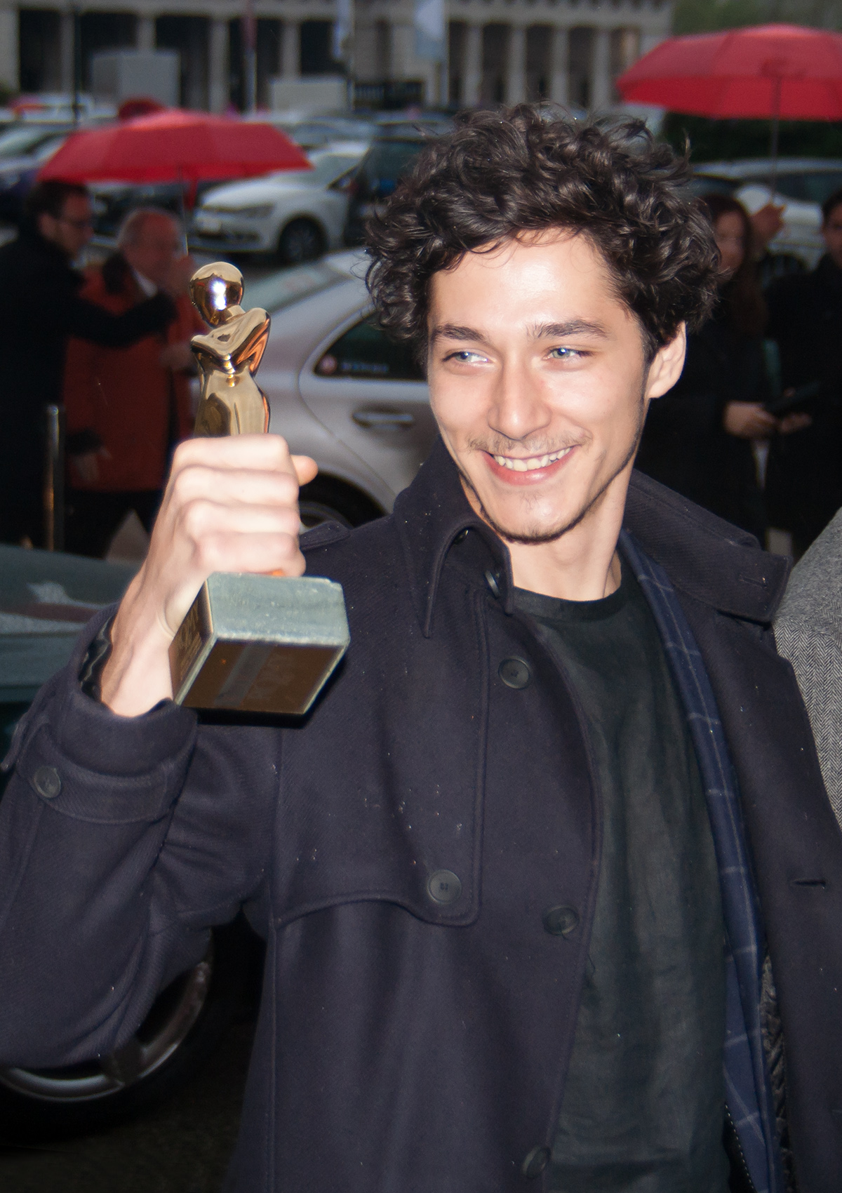 Noah Saavedra (Egon Schiele: Tod und Mädchen) on the red carpet of the Romy TV awards 2017 at Hofburg Palace in Vienna, Austria.